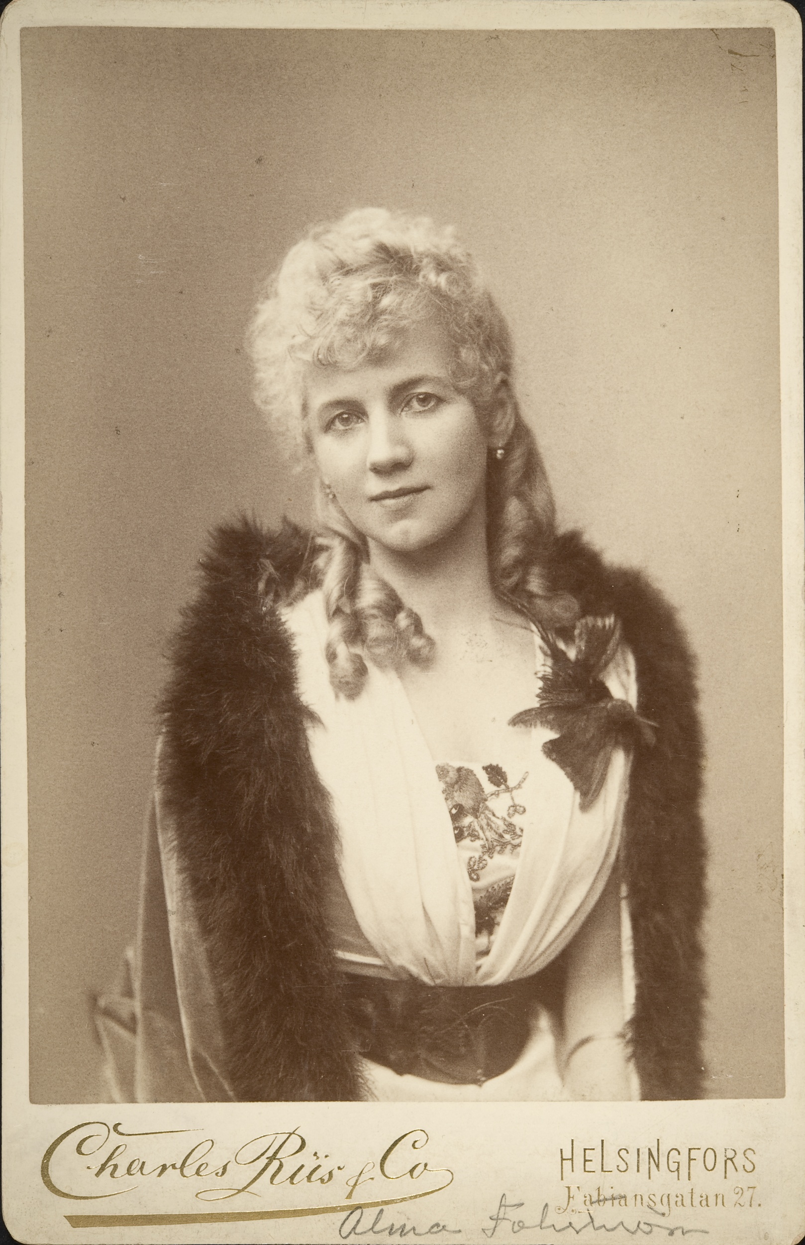 Old foto of Alma Fohström-von Rode (1856–1936), Finnish opera singer.